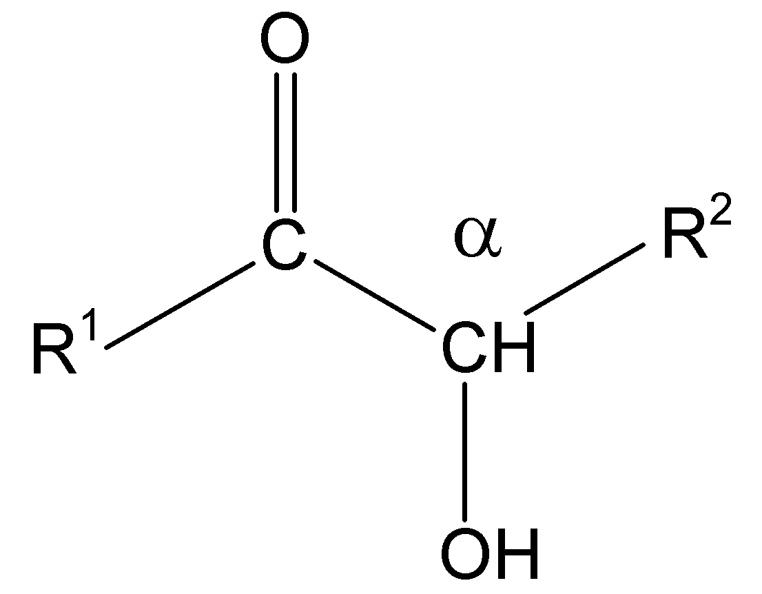 The structure of a typical acyloin.